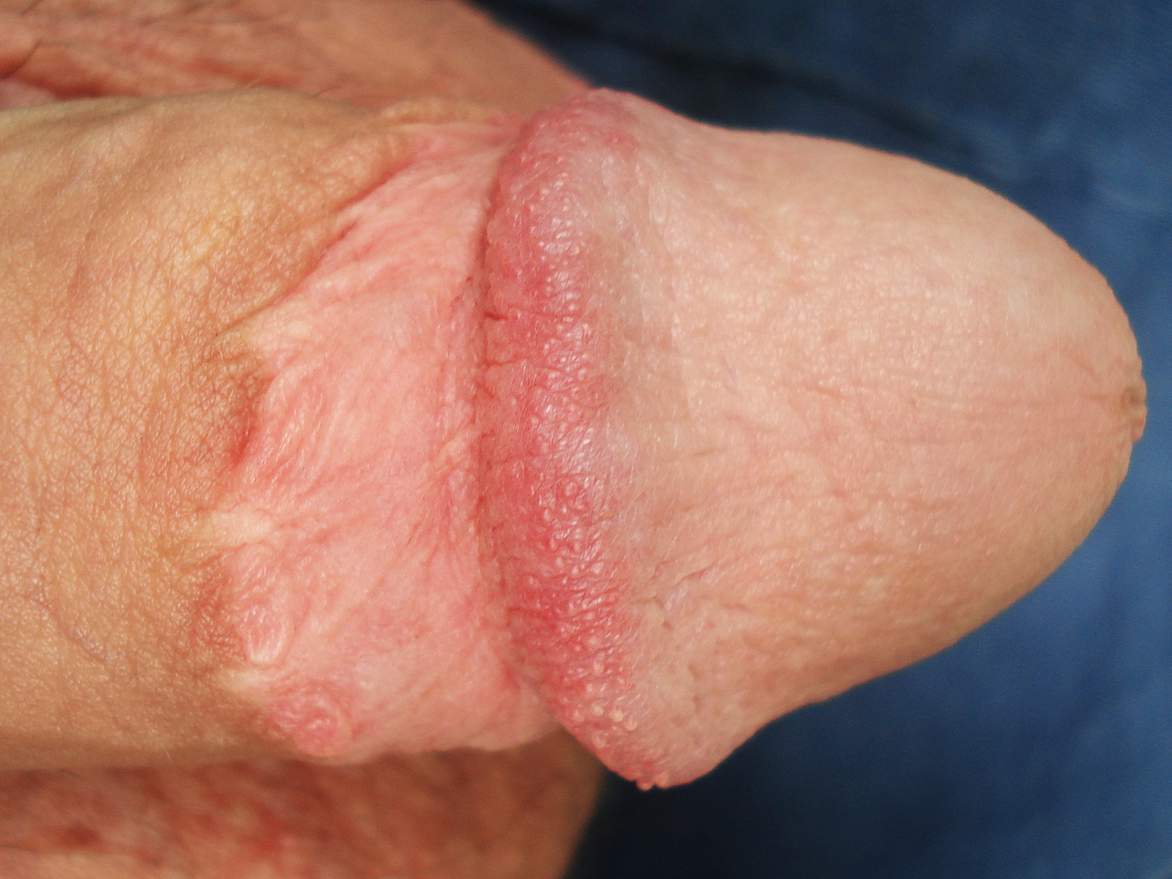 Adult circumcision scar, stitch scar visible